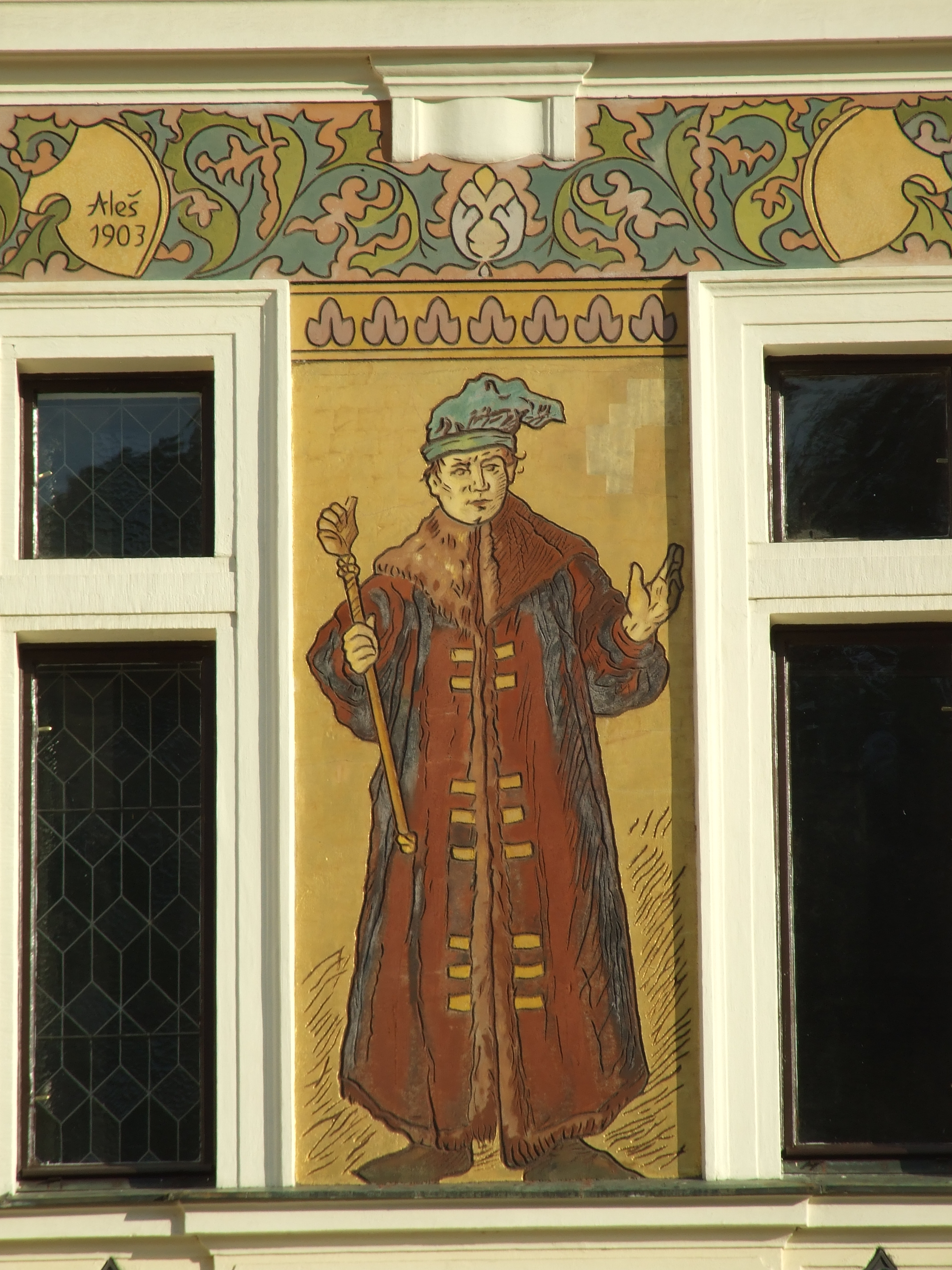 New townhall in Náchod